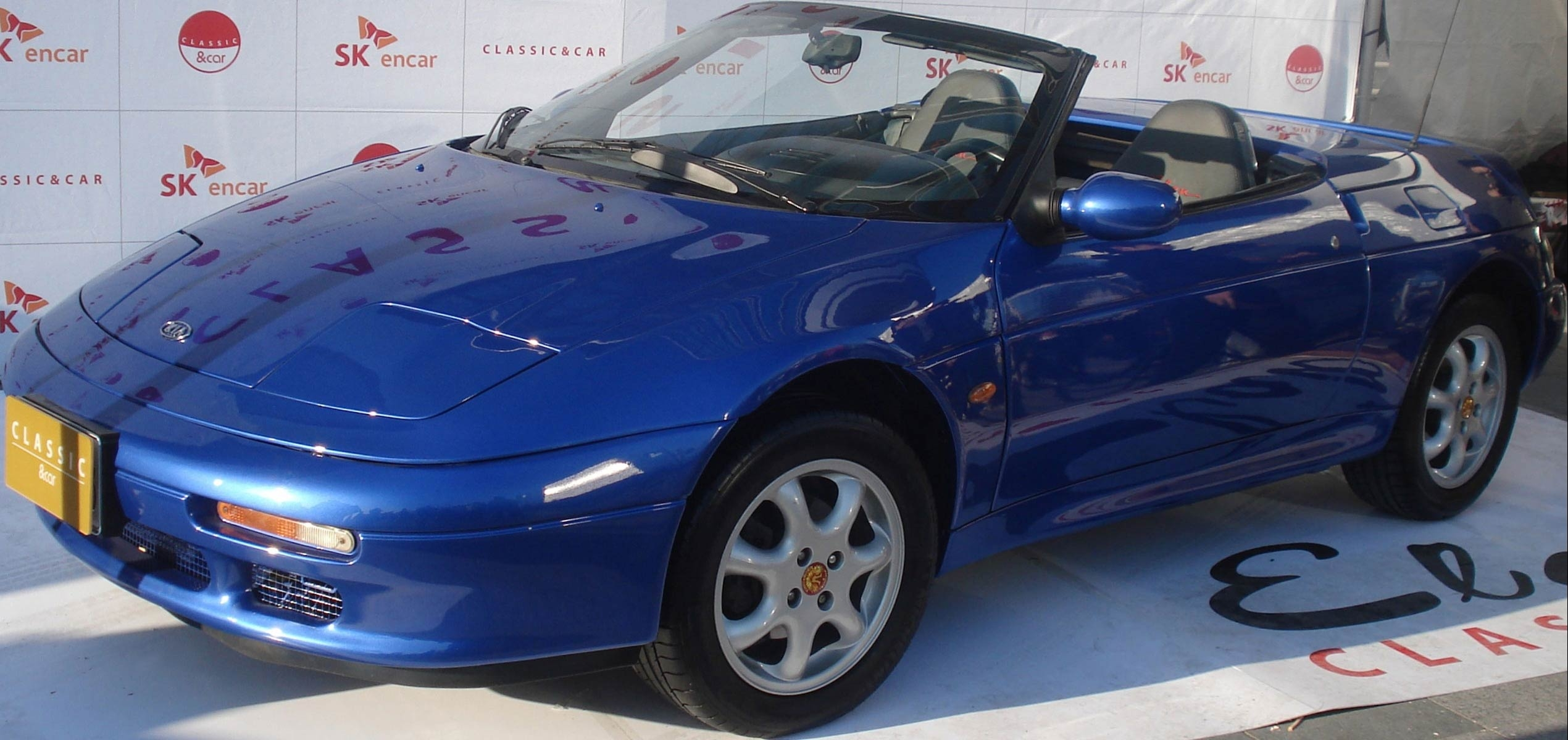 Kia Elan